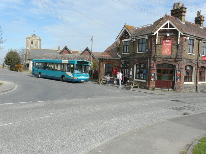 An Arriva bus waiting to depart for Chatham. This was the 11:30 am service that was about to depart from the Six Bells stop at Cliffe to call at Strood and Rochester on the way. Behind the bus is the tower of St Helen’s church. It is a grade 1 listed building dating from the 12th century. It was remodelled in the early 14th century and the chancel, tower and transepts were restored in the 19th century